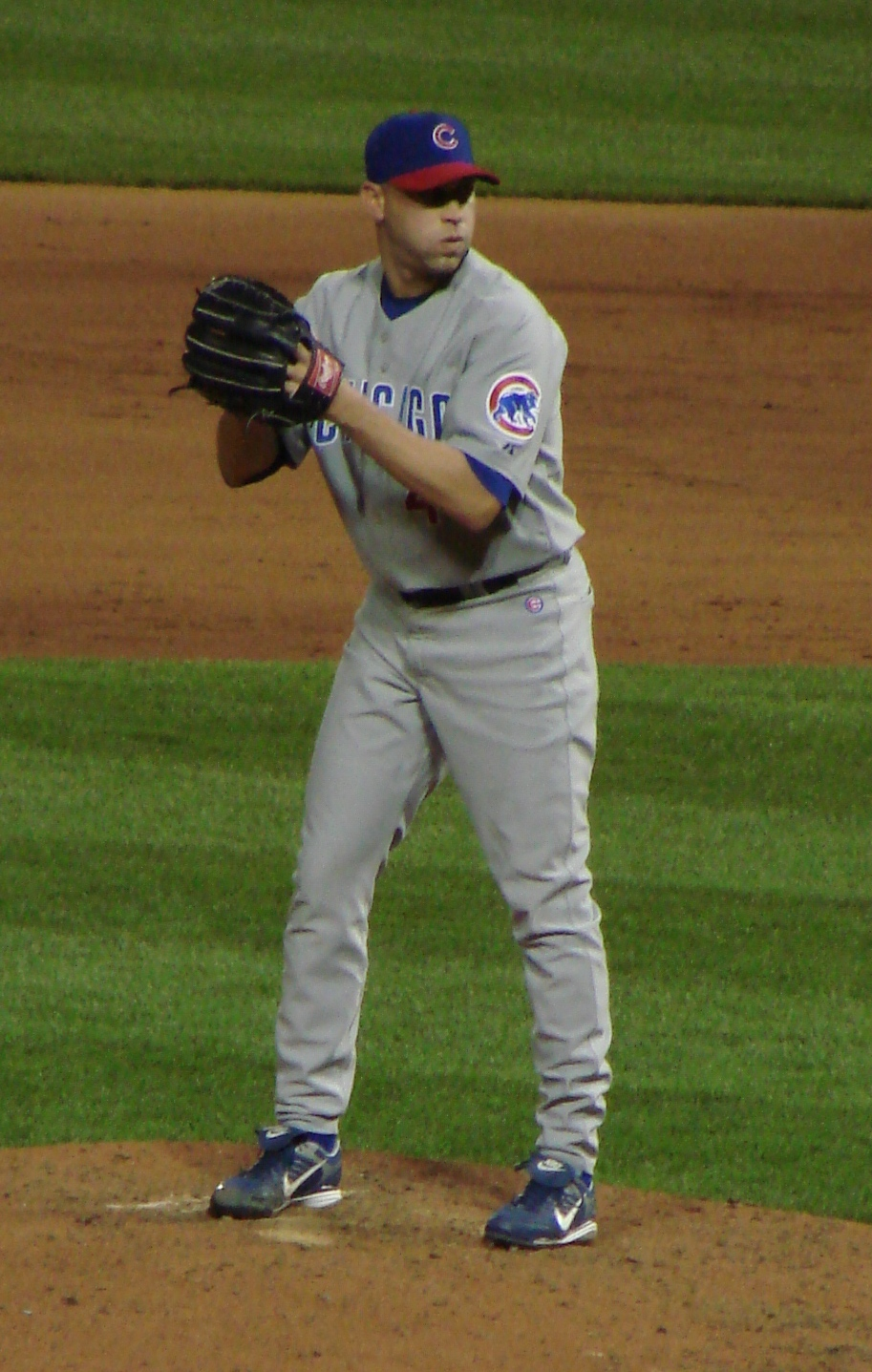 Michael Wuertz playing for the Chicago Cubs. 19:55, 14 July 2007 . . Mshake3 . . 913×1437 (520 KB)